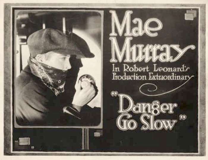 Danger, Go Slow is a 1918 American comedy film directed by Robert Z. Leonard and featuring Lon Chaney. This is a contemporary lobby card for the film. Current file is low resolution and should be replaced with a higher resolution image when possible.